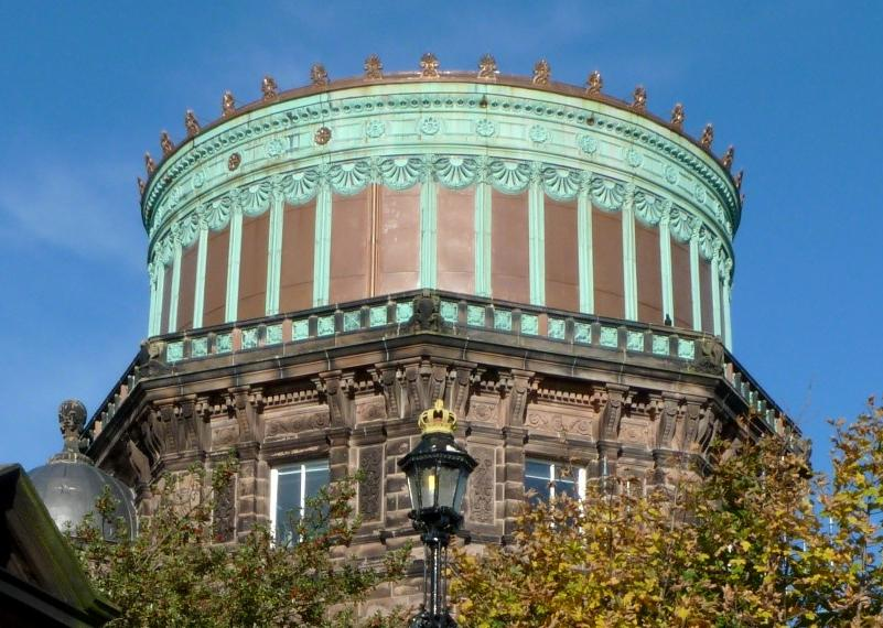 The East Tower of the Royal Observatory, Edinburgh. *This picture was taken soon after the refurbishment of the copper dome was completed, in October 2010. *The colour of the new copper contrasts with the original 1894 copper.